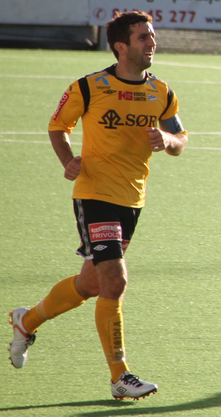 IK Start player (yellow) in a match against Strømmen IF. August 26, 2012 at Strømmen stadium, Akershus, Norway.